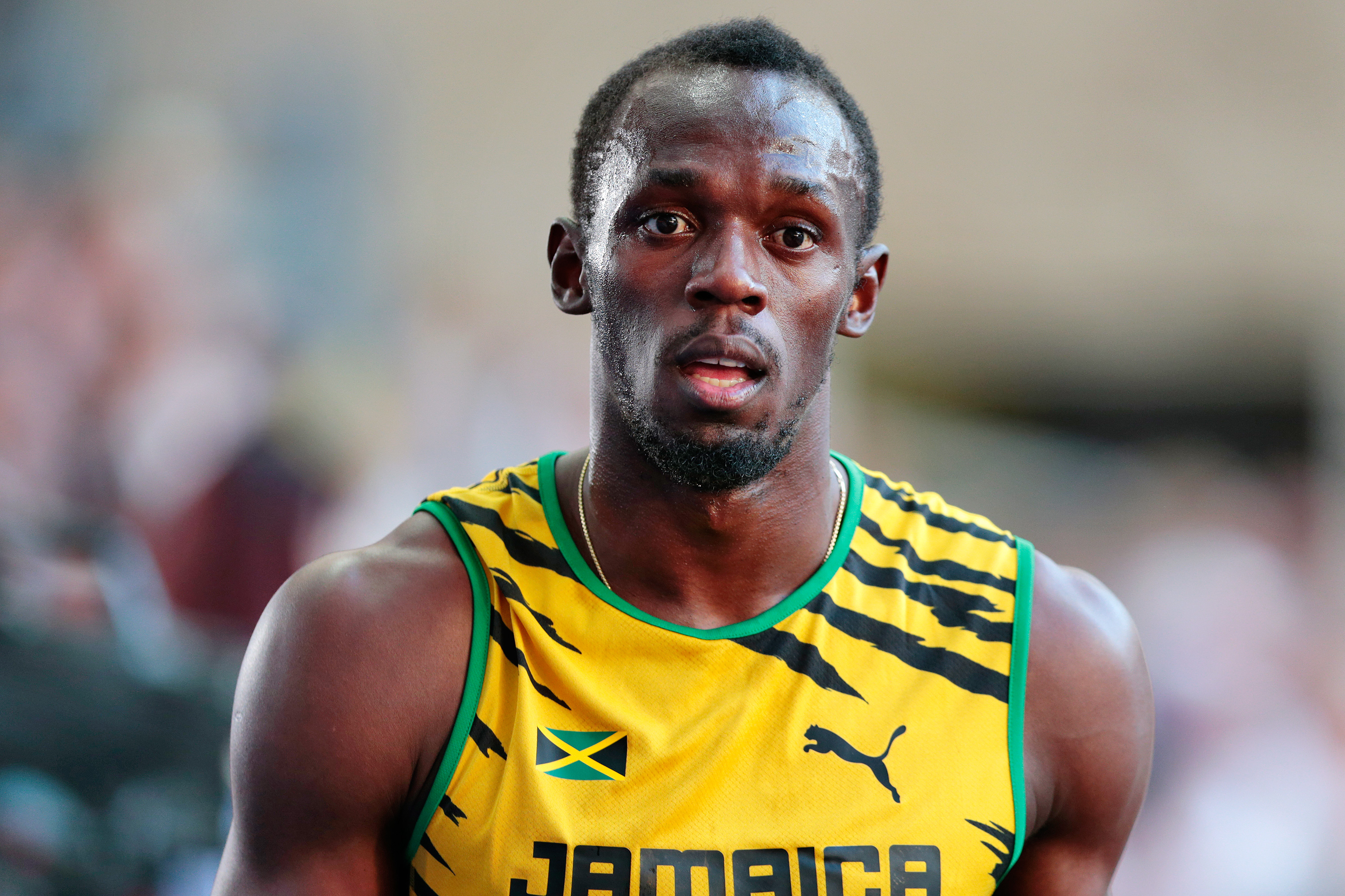 Usain Bolt on 14th IAAF World Championships in Athletics